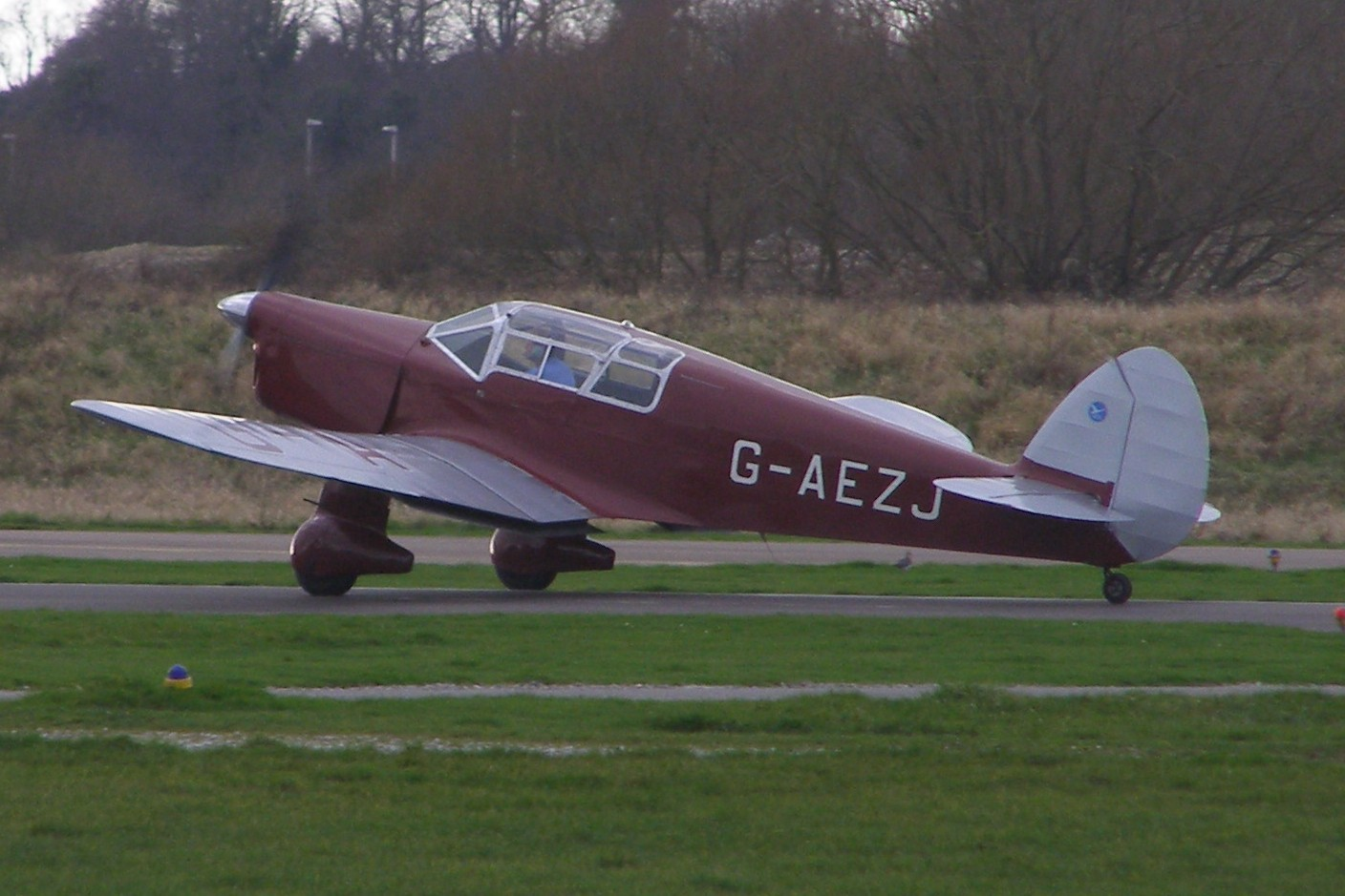 G-AEZJ a 1937 built Percival Vega Gull at Shoreham Airport, England